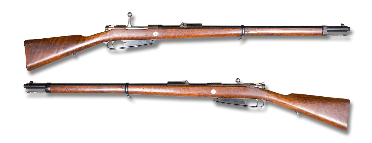 Infanteriegewehr Model 1888, Germany. Caliber 7.92mm. From the collections of Armémuseum (Swedish Army Museum), Stockholm.